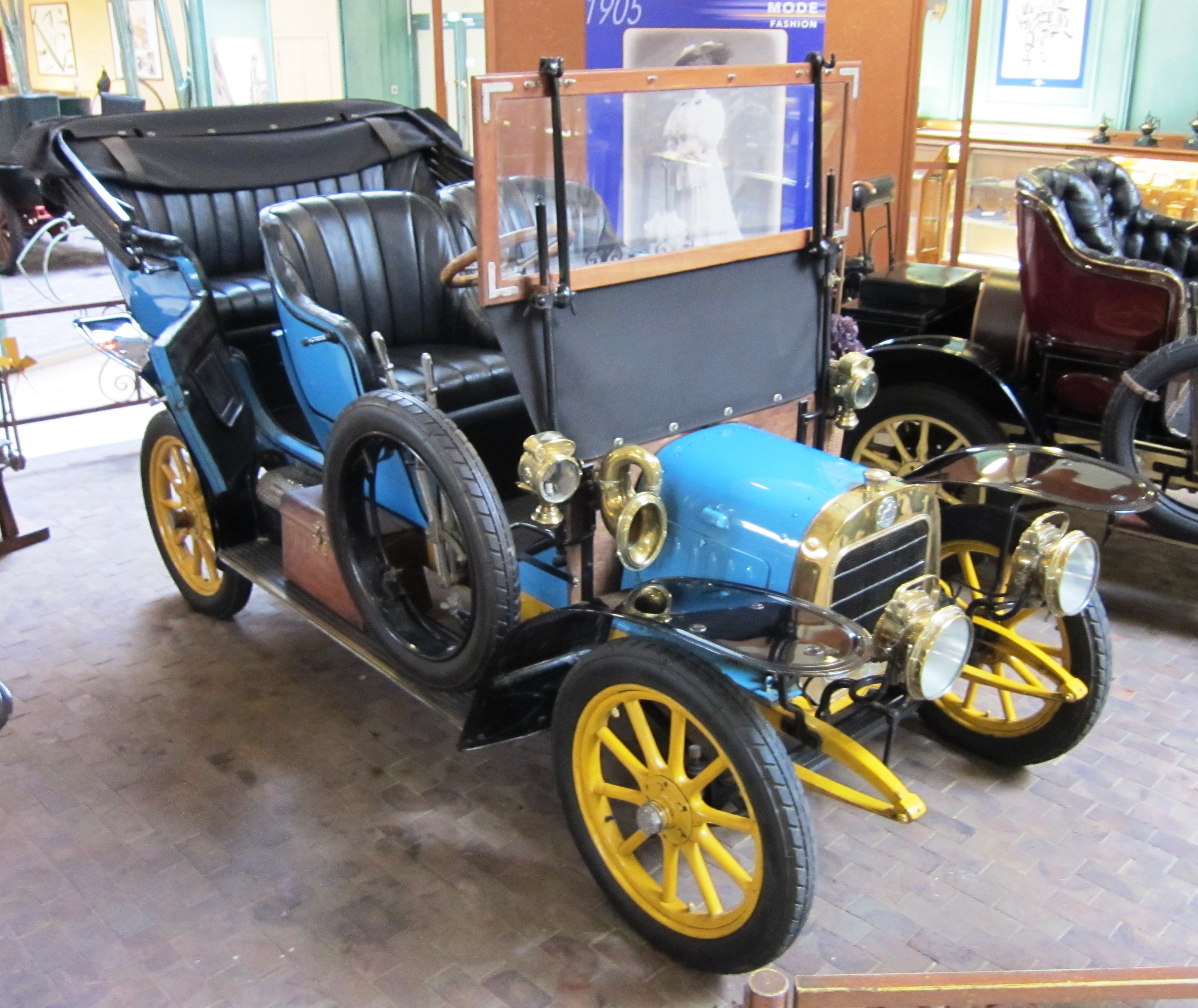 Voiturette LION Type VC2 Double Phaéton at Sochaux